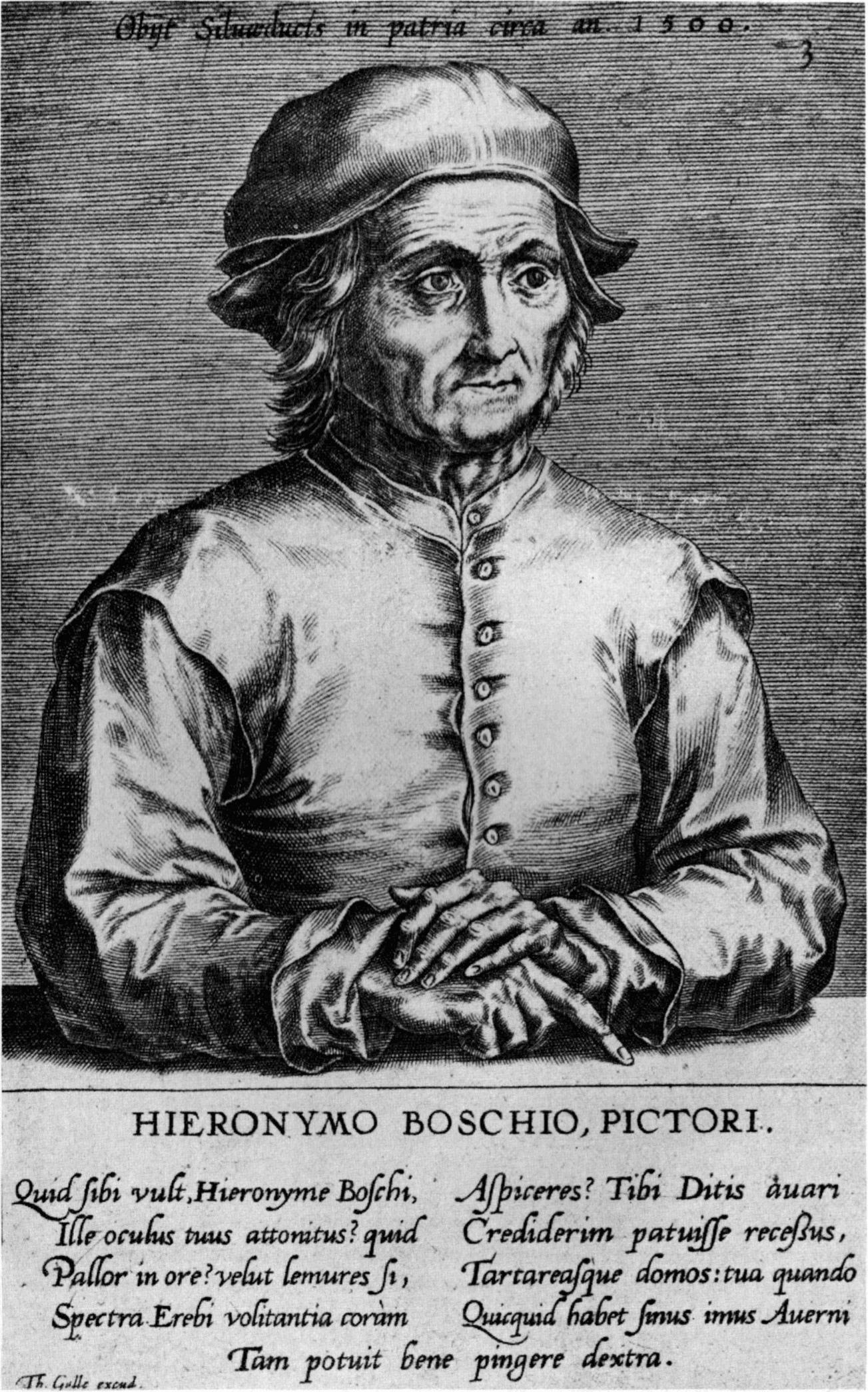 Portrait of Hieronymus Bosch. Third state. Used in Lampsonius (1600) Pictorium aliquot celebrium Germaniae inferioris effigies, Antwerpen: Th. Galle, ill. 3.